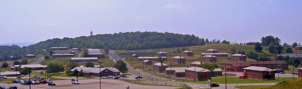 Former military housing at Stewart International Airport in Newburgh, NY, USA